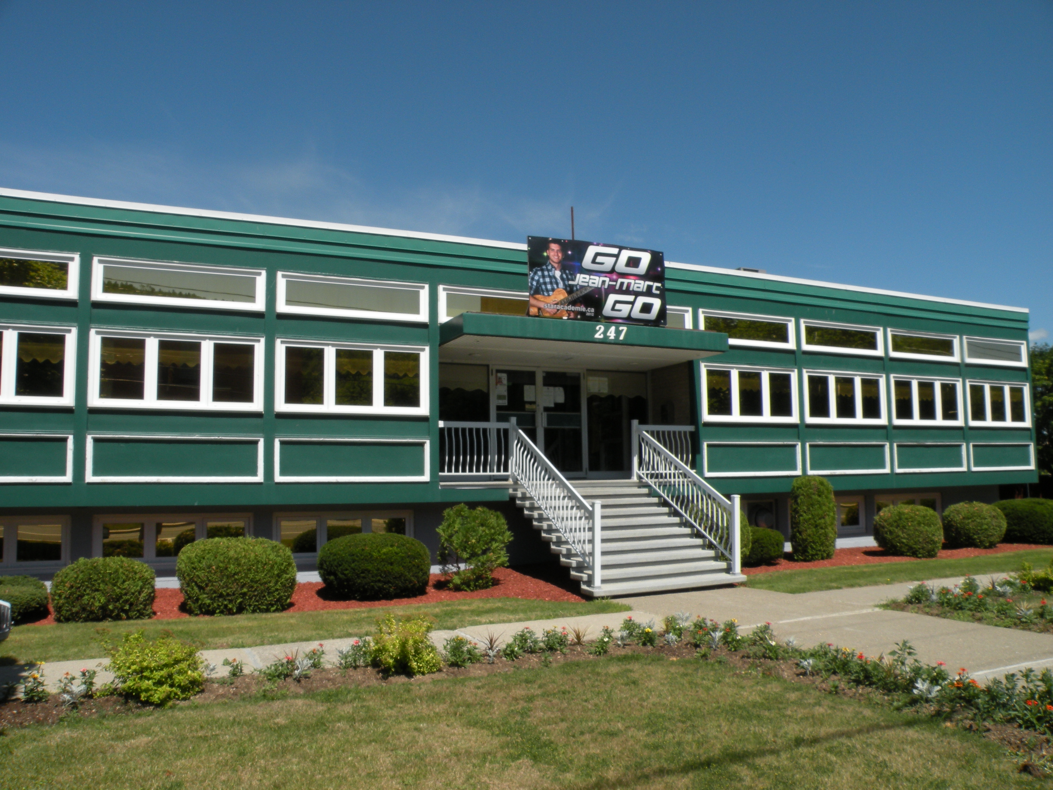 A poster of Jean-Marc Couture, winner of the Star Académie 2012 edition, in Atholville, New Brunswick, Canada.